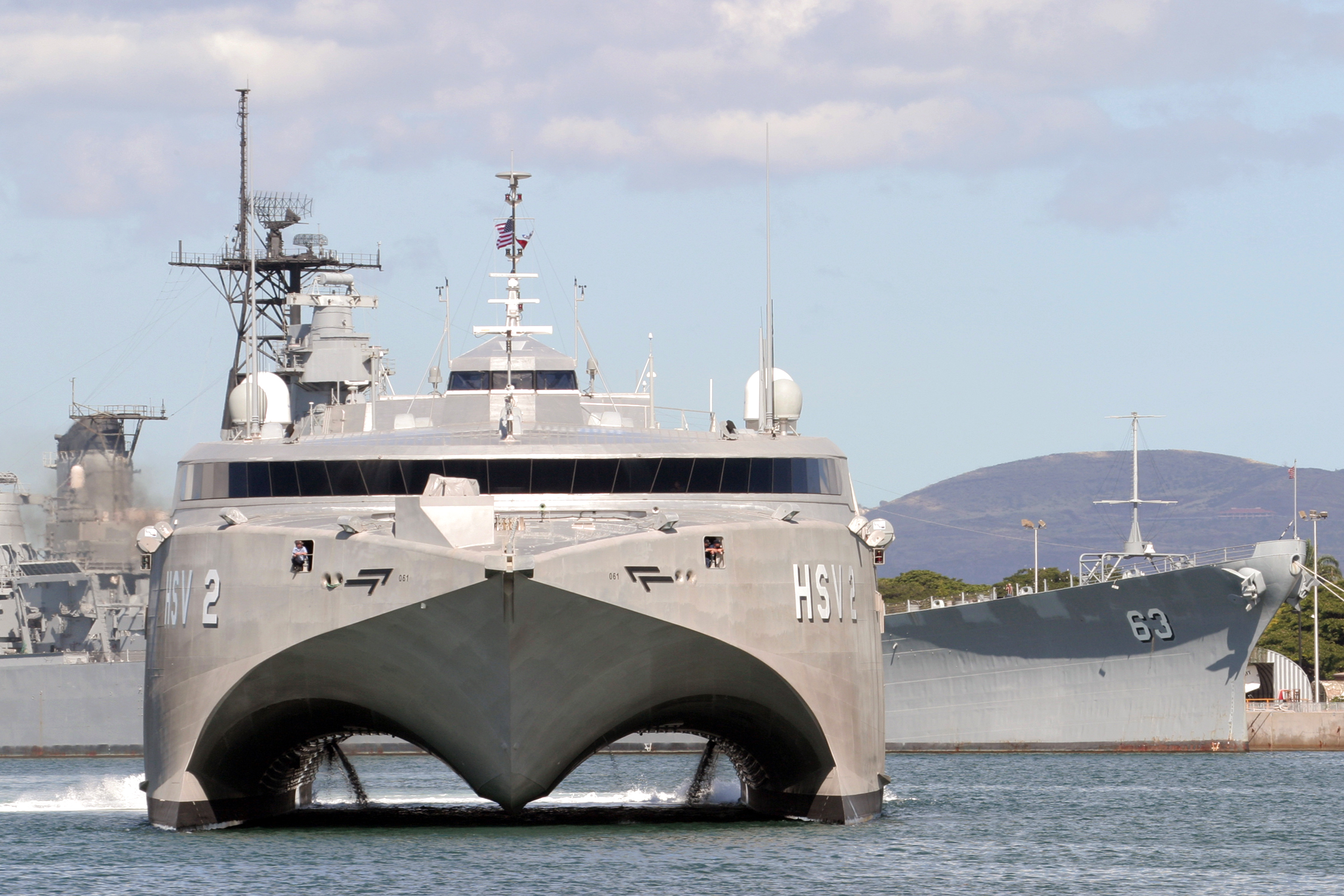 Pearl Harbor, Hawaii (July 7, 2004) - High Speed Vessel Two (HSV-2) “Swift” maneuvers around Ford Island near the battleship USS Missouri (BB 63) while shifting berths in Pearl Harbor, Hawaii. Swift is taking part in the multi-national maritime exercise Rim of the Pacific 2004 (RIMPAC). RIMPAC is the largest international maritime exercise in the waters around the Hawaiian Islands. This year’s exercise includes seven participating nations; Australia, Canada, Chile, Japan, South Korea, United Kingdom and United States. RIMPAC is intended to enhance the tactical proficiency of participating units in a wide array of combined operations at sea, while enhancing stability in the Pacific Rim region. U.S. Navy photo by Photographer's Mate 1st Class William R. Goodwin (RELEASED) For more information go to